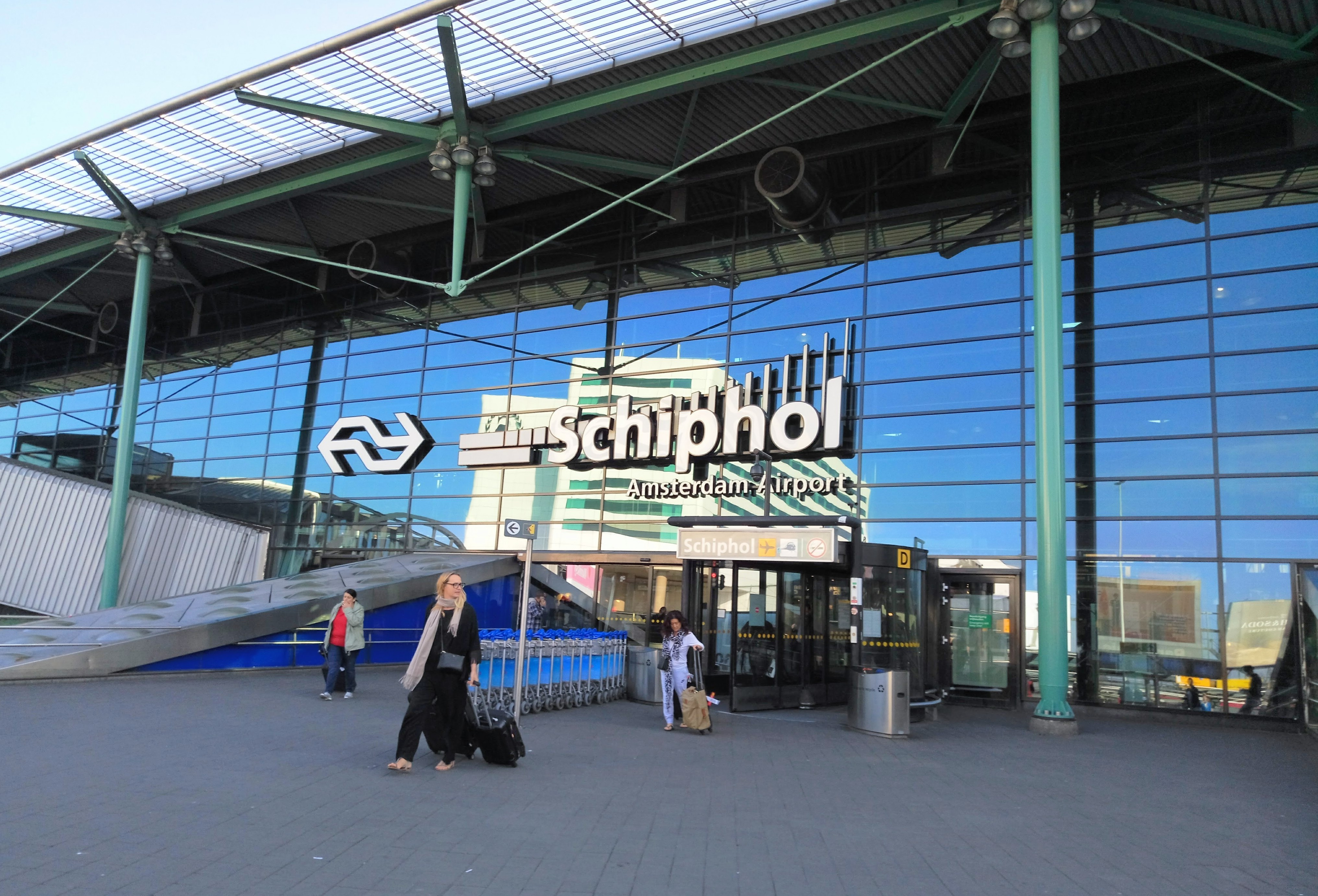 Amsterdam Schiphol Airport entry